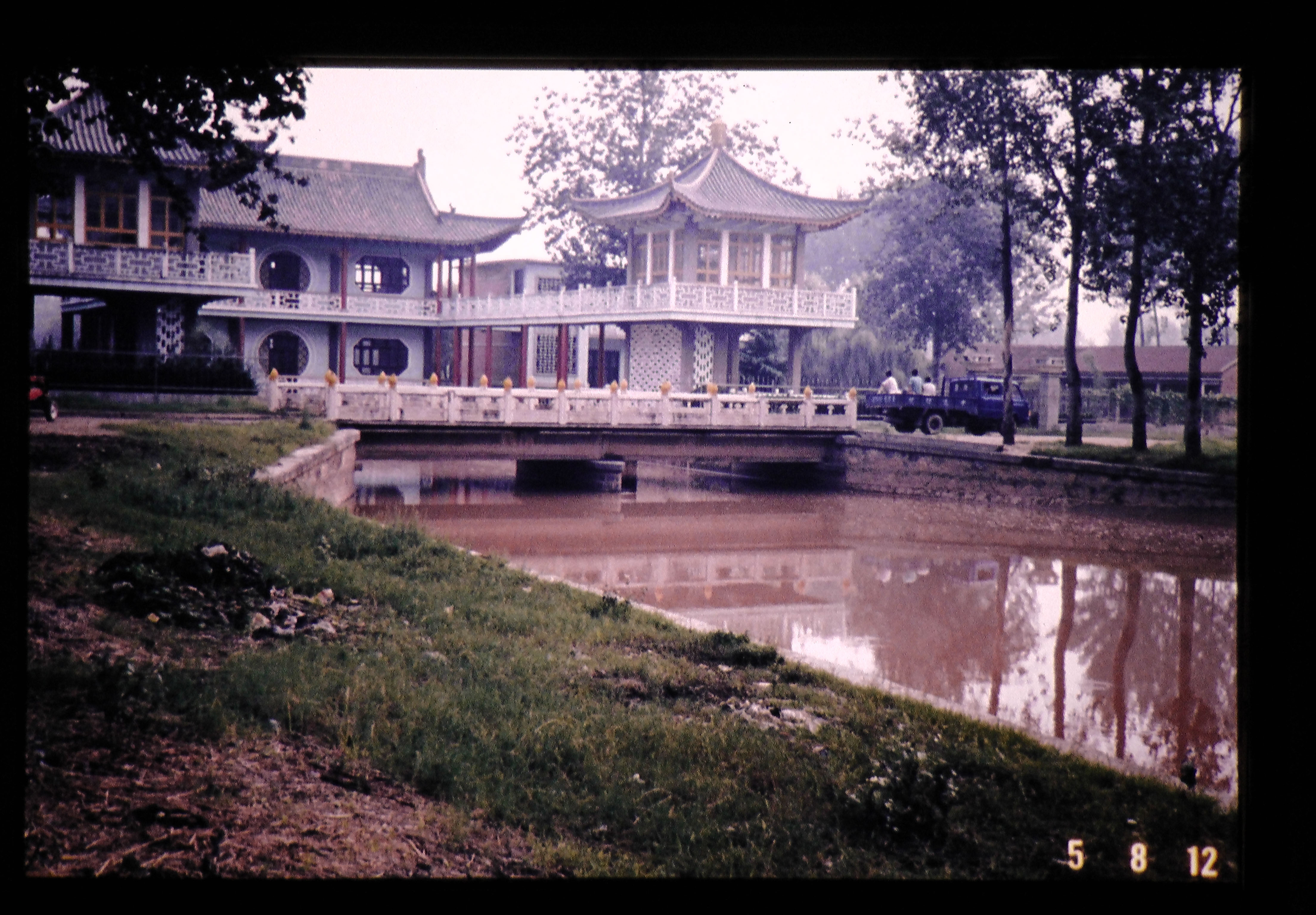 Author: Ishida Hiroshi / 石田博 (JICA専門家) / Date: 1993.08.12 / Project: 中国鄭州黄河稲麦研究計画 / Country: 中国 (China) / Keywords: 中国鄭州黄河稲麦研究計画,中国,河南省焦作市（黄河北側）,農業工学, / Slide no. 02-159-15